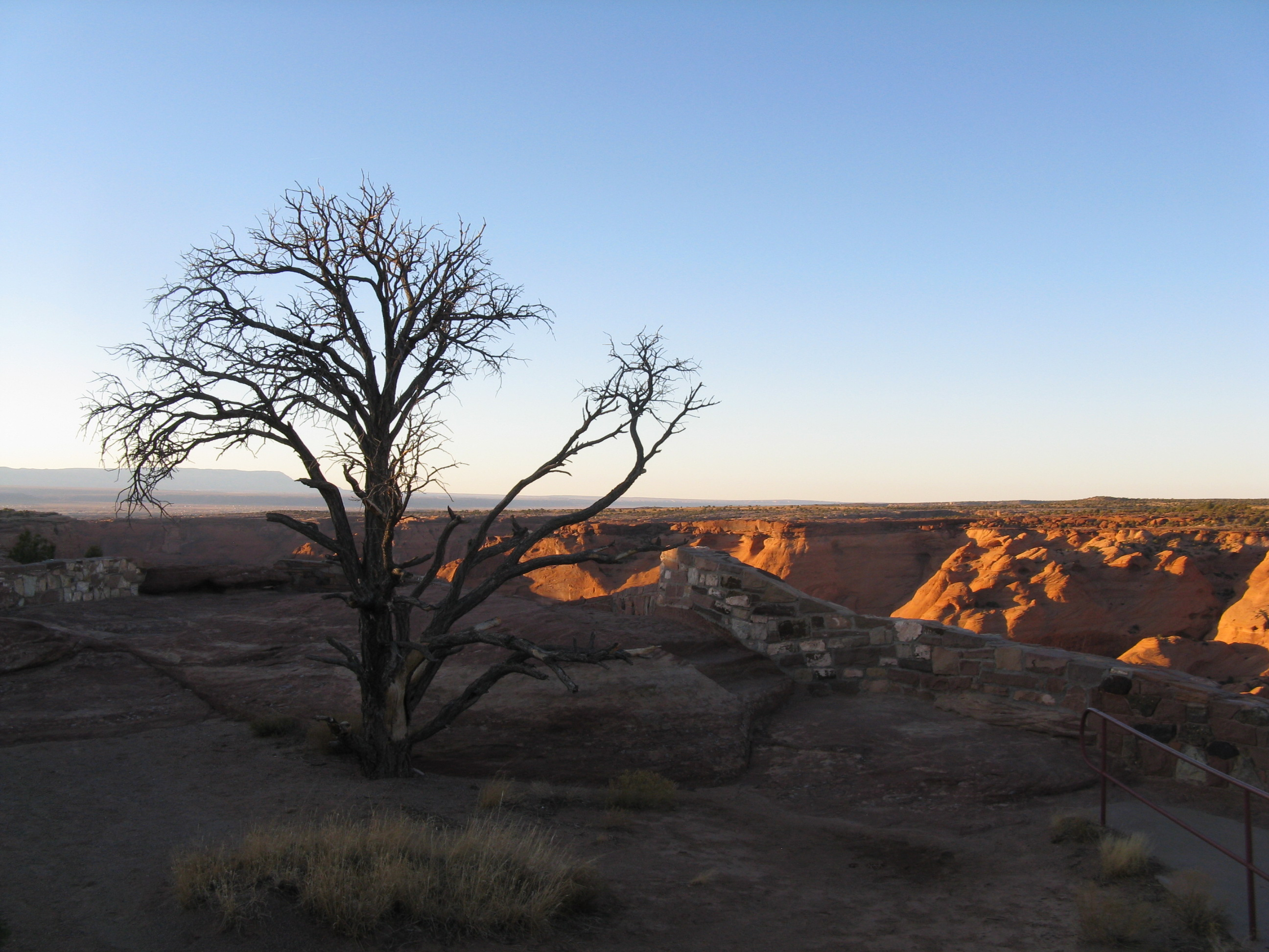 Tree, Canyon de Chelly, Apache County Arizona